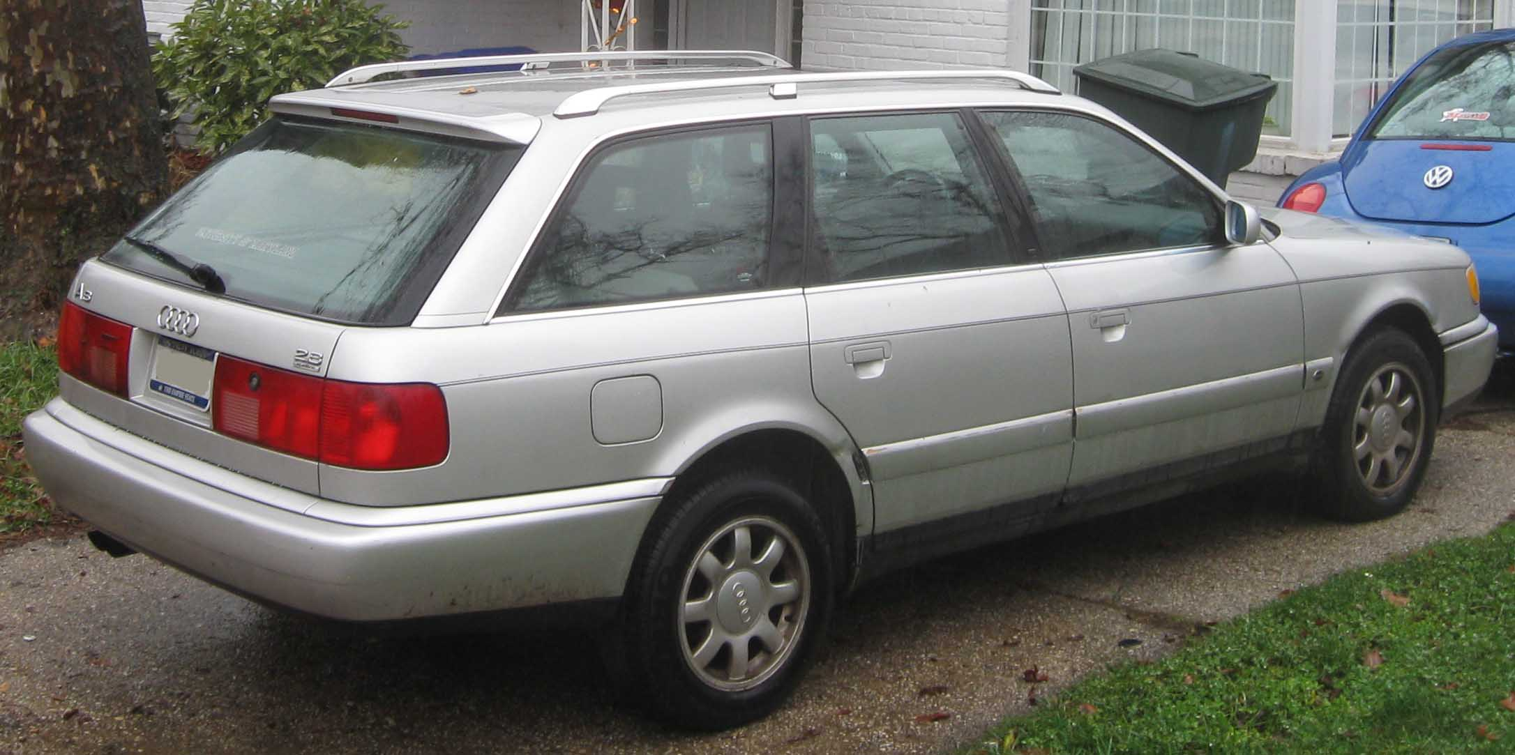 Audi A6 photographed in College Park, Maryland, USA.